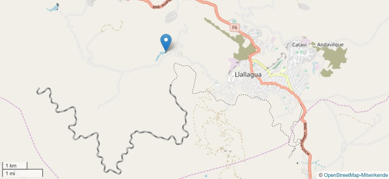 Embalse Katiri - Hydro-Electric Plant and Railway near Llallagua, Bolivia (OpenStreetMap)